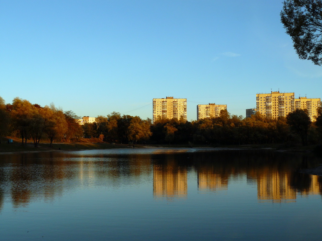 Blue lake (Syne ozero) in Kiev